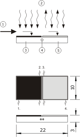 Radiative and Convective (RC01) heat flux sensor. This diagram shows the different sensors and general layout of such a heat flux sensor. Numbers indicate: (1) convective heat, (2) radiative heat, (3) heat flux sensor with black absorber, (4) temperature sensor and (5) heat flux sensor with gold reflector.